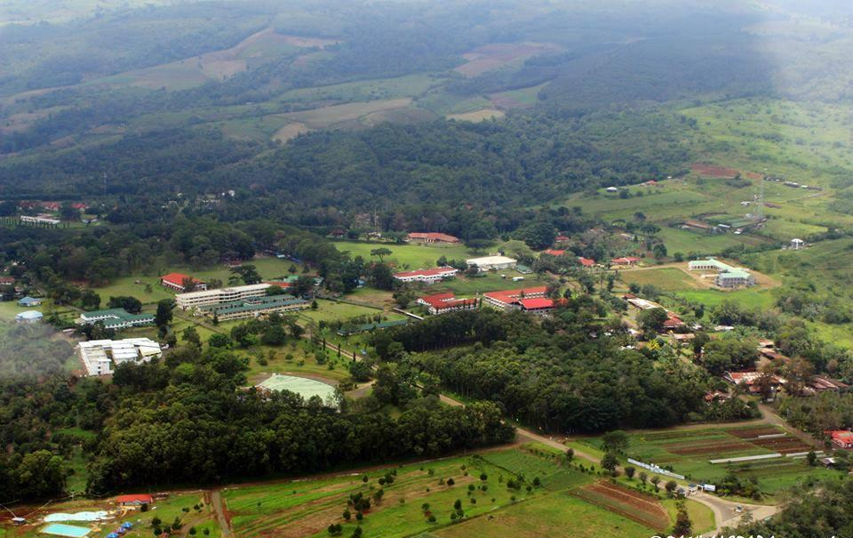 Mountain View College Aerial by RANValera Photography